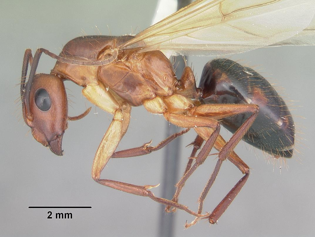 Profile view of ant Camponotus tortuganus specimen casent0103719.